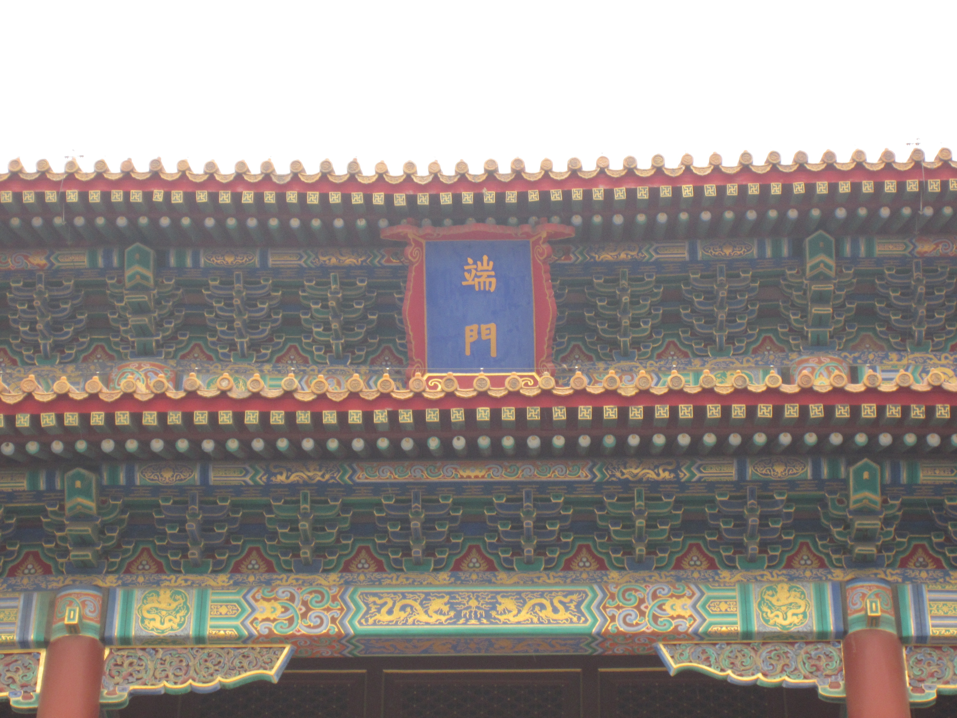 (view N) Gate of Uprightness